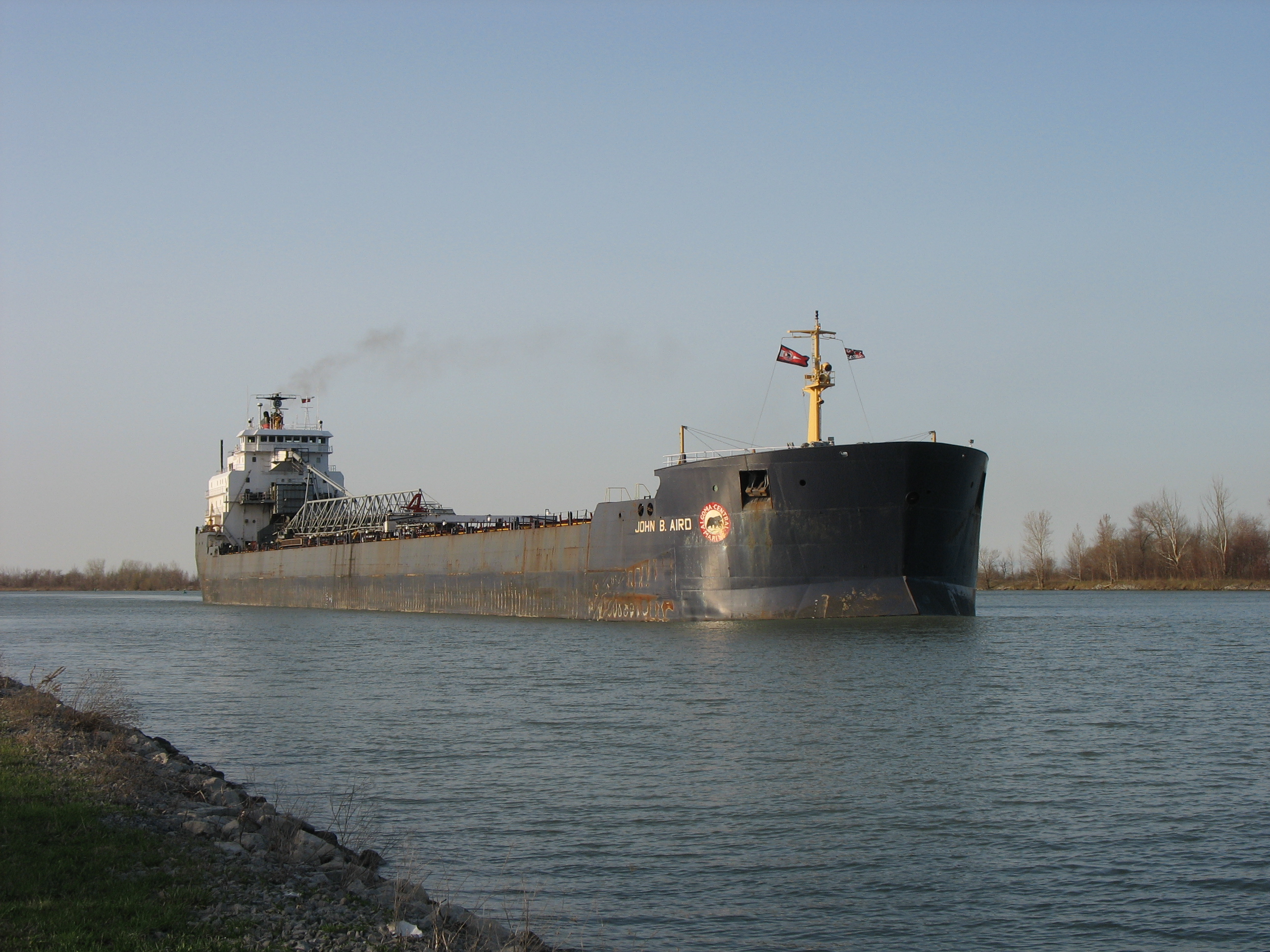 John B. Aird transiting the Welland Canal, just north of St. Catharines Skyway bridge. IMO Number: 8002432 MMSI Number: 316001801 Callsign: VCYP Length: 223 m Beam: 23 m